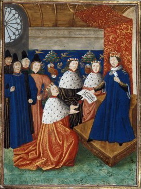 Richard II giving the Duchy of Aquitaine to the Duke of Lancaster. Illuminated miniature from Jean Froissart's Chroniques, BL Harley 4380.